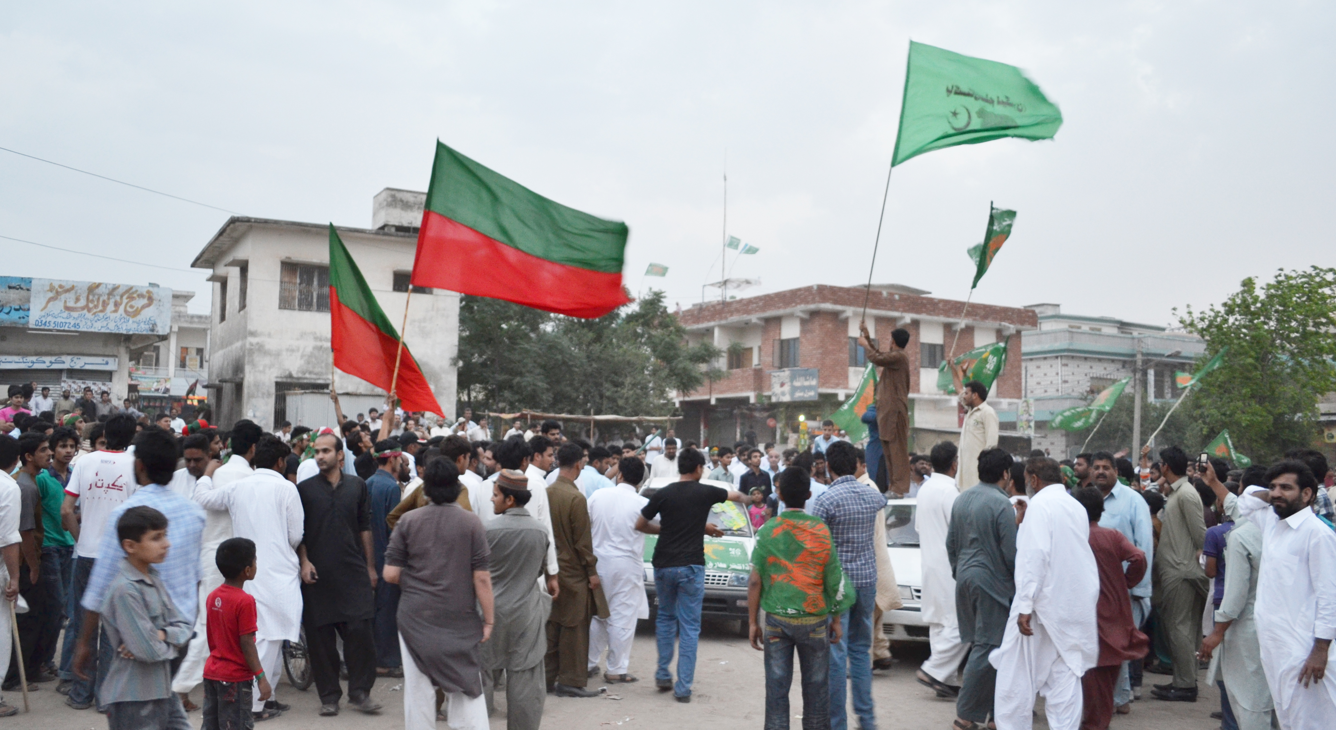 Islamabad Election Result